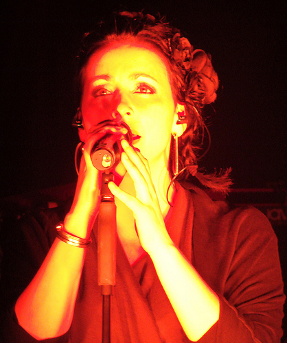 Kate Havnevik performing live with Christopher von Deylen's SCHILLER in Leipzig/Germany. (Atemlos-Tour 2010)